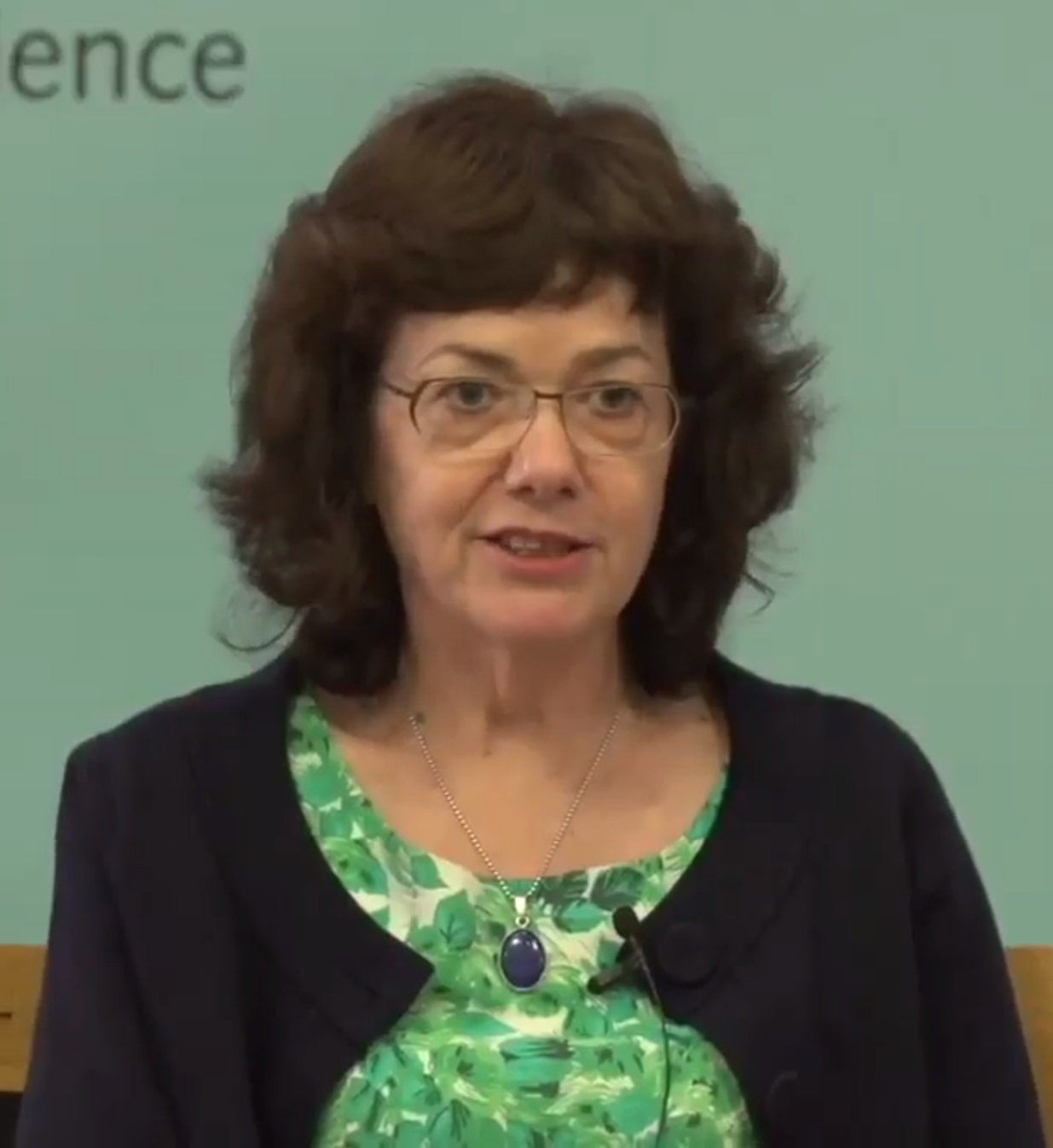 Biotech on the Farm: Food for Thought? (TalkScience@BL) As the world’s population grows larger and richer, there is a rapidly increasing demand for meat. Can we meet this demand in a sustainable way? Will technologies such as genetically modified animals have a role to play in future meat production? Are there any ways to reduce global meat consumption? Catherine de Lange (New Scientist) chairs the debate at our 26th TalkScience event with Professor Helen Sang (Roslin Institute, University of Edinburgh), Vicki Hird (Friends of the Earth) and Professor Richard Tiffin (Centre for Food Security, University of Reading).